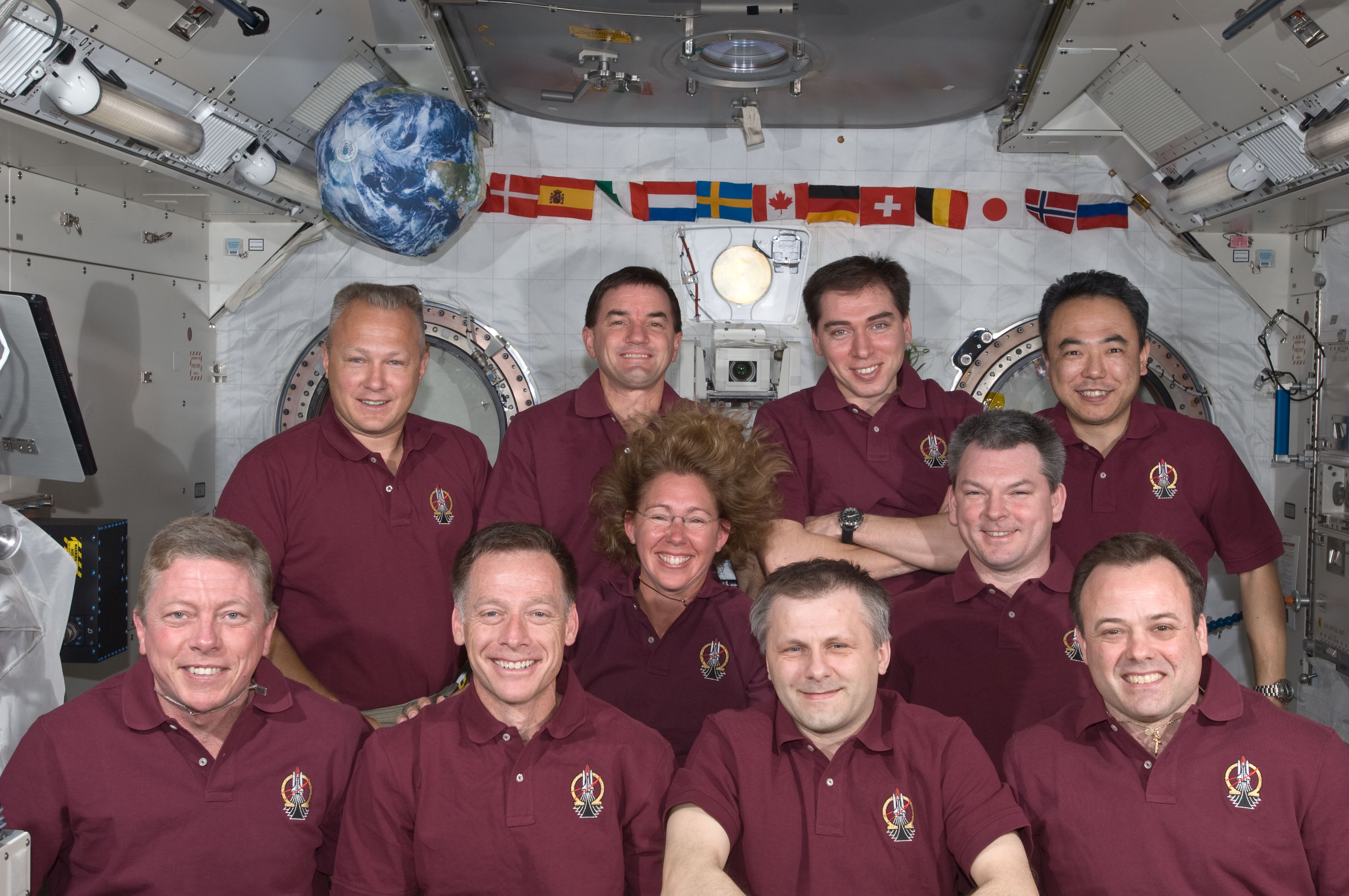 The Expedition 28 crew and the STS-135 Atlantis astronauts take a break from a busy day in space to pose for a portrait aboard the orbiting complex's Kibo laboratory of the Japan Aerospace Exploration Agency. The STS-135 crew consists of NASA astronauts Chris Ferguson, Doug Hurley, Sandy Magnus and Rex Walheim; the Expedition 28 crewmembers are JAXA astronaut Satoshi Furukawa, NASA astronauts Ron Garan and Mike Fossum, and Russian cosmonauts Andrey Borisenko, Alexander Samokutyaev and Sergei Volkov. The photo is arranged thusly: left to right in the front row are Fossum, Ferguson, Borisenko and Garan; in the middle row are Magnus and Samokutyaev; and the back row consists of Hurley, Walheim, Volkov and Furukawa.